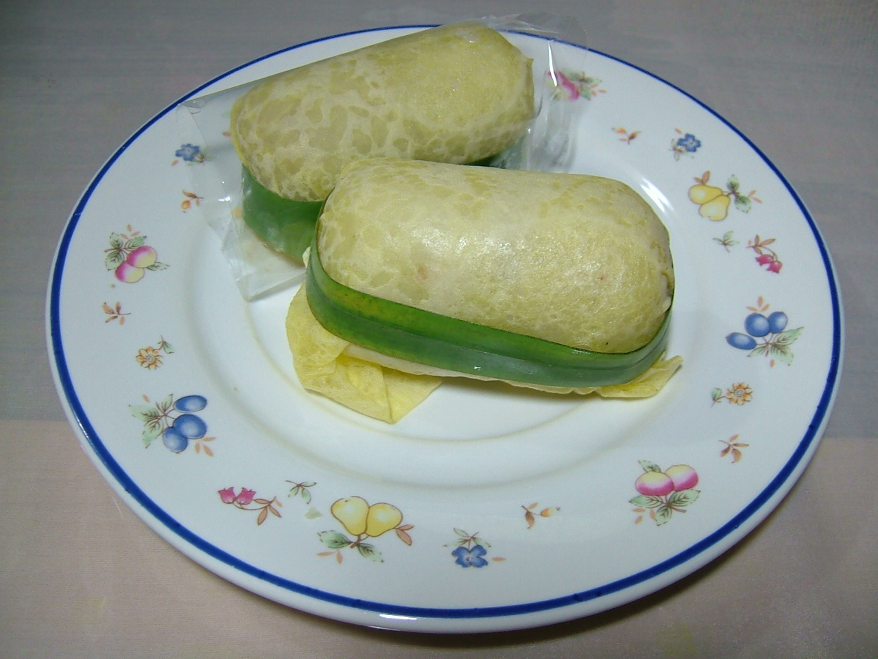 Semar mendem (steamed sticky rice filled with dried chicken and wrapped in egg crepe)